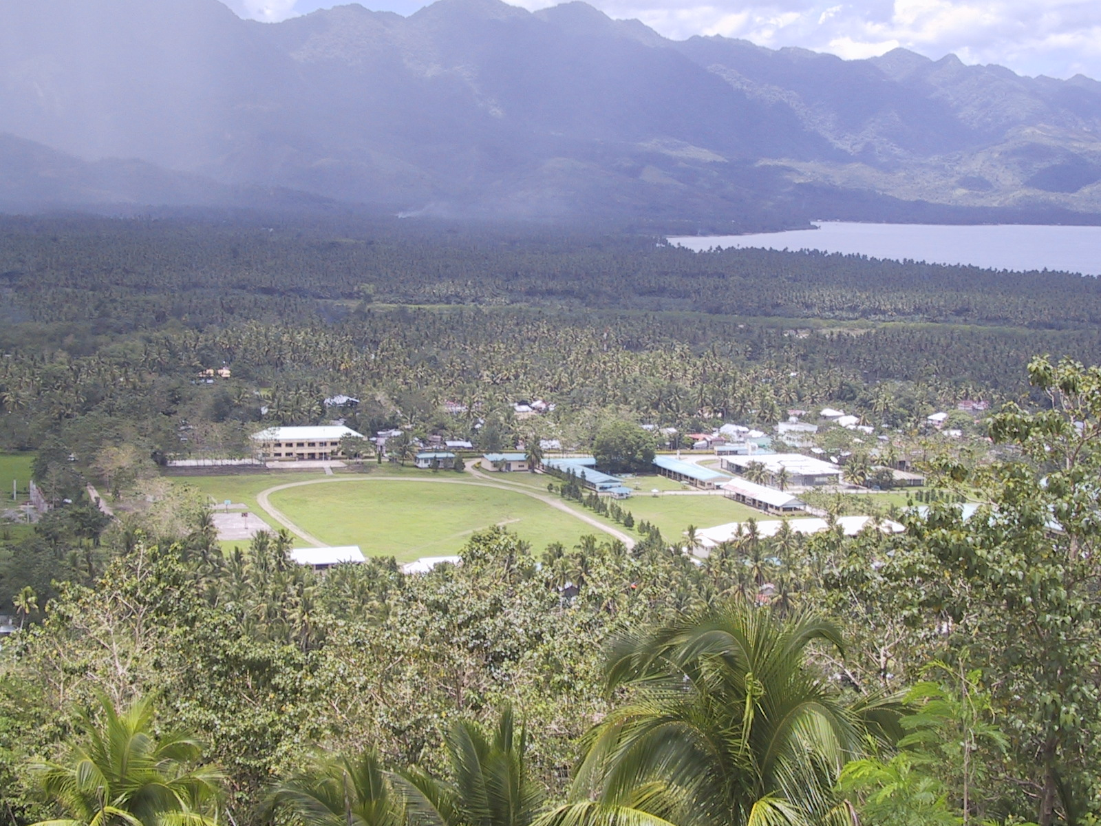 SLSCST from the mountain top